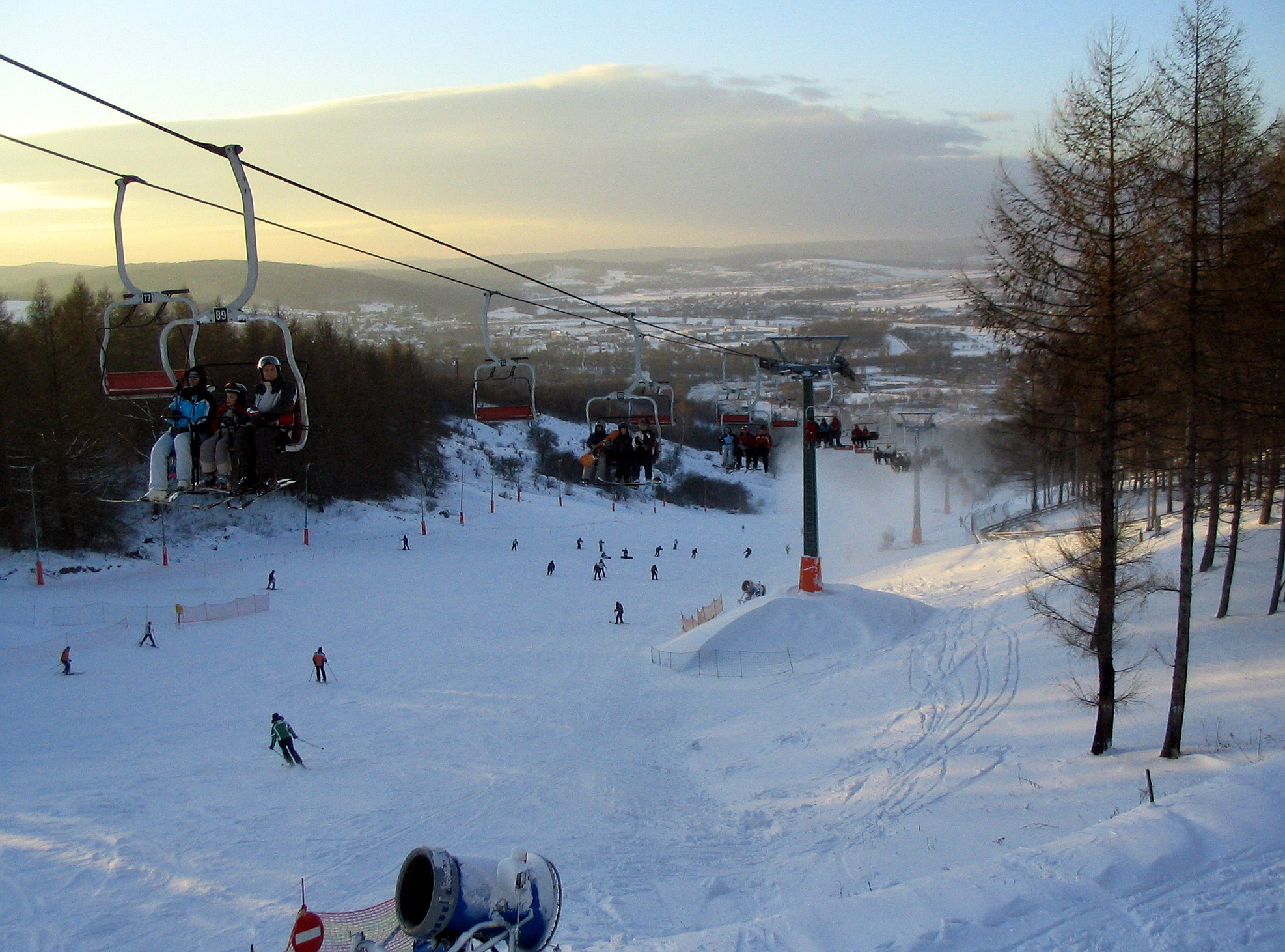 Ski slope in Przemyśl, Poland - Track no 1